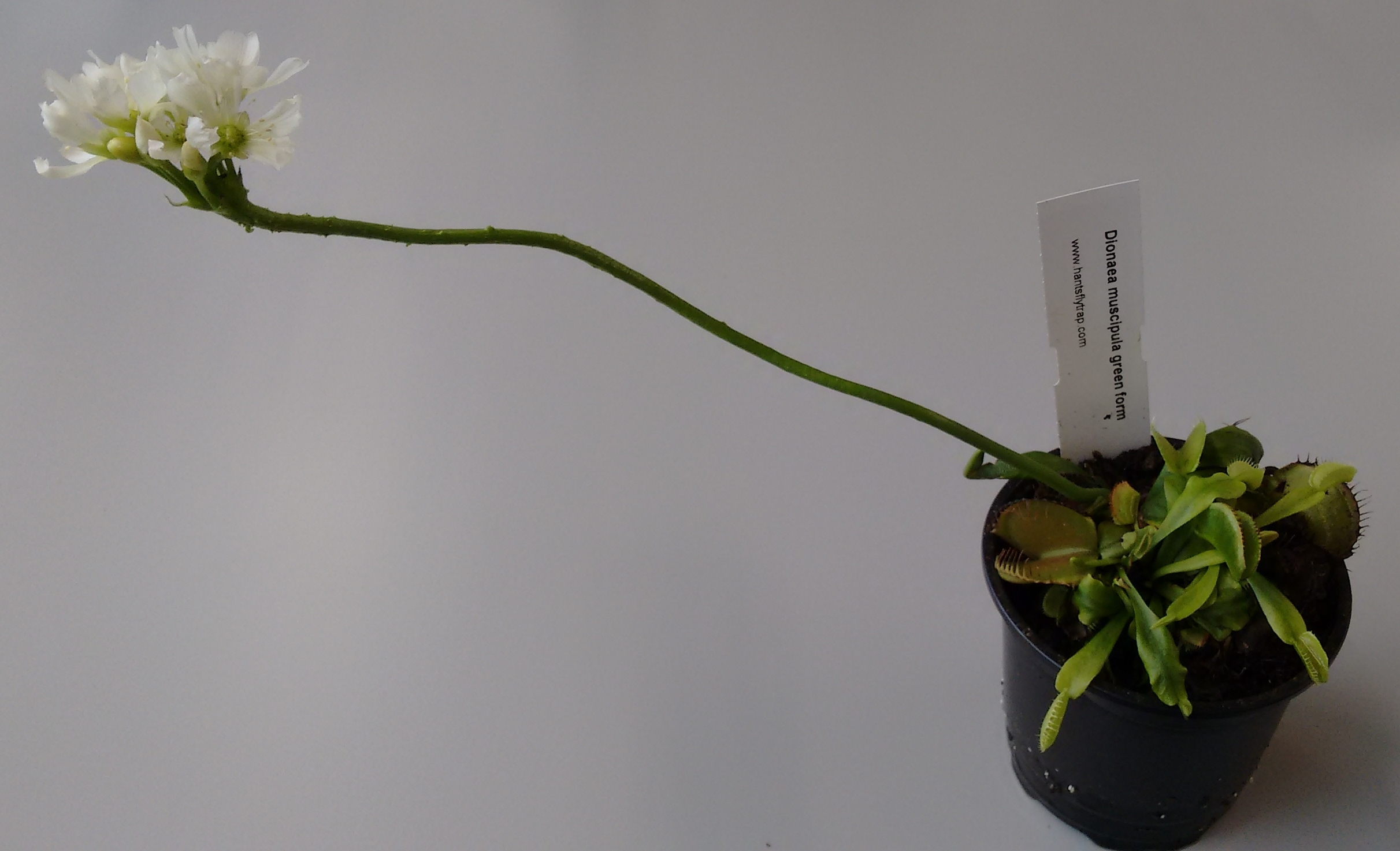 Flowering venus flytrap showing a long flower stem to prevent insect catching